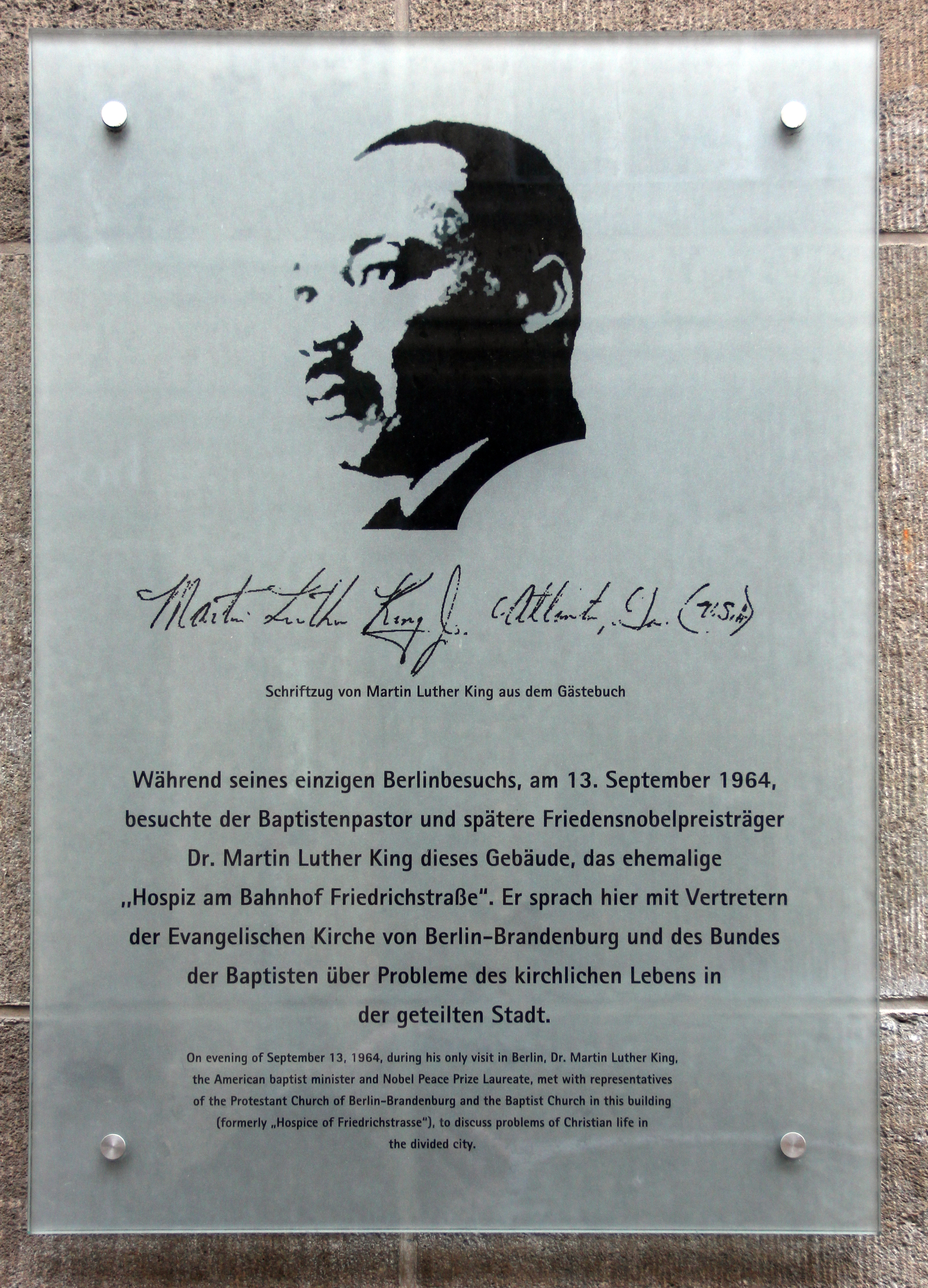 Memorial plaque, Martin Luther King, Albrechtstraße 8, Berlin-Mitte, Germany